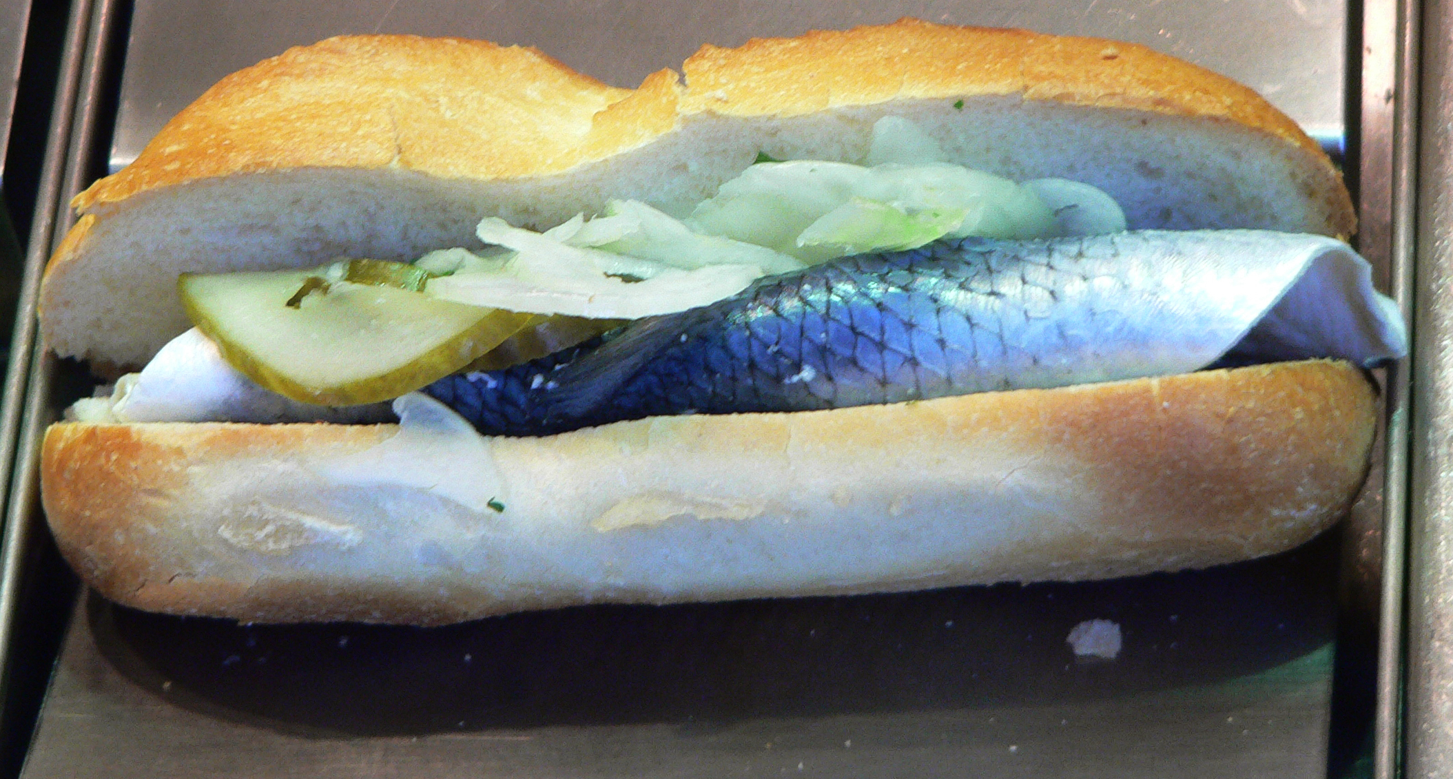 A Fischbrötchen (sandwich with pickled herring), taken in a fast food chain "Nordsee" in Baden-Baden. Uploaded 2011-01-07 from German wikipedia